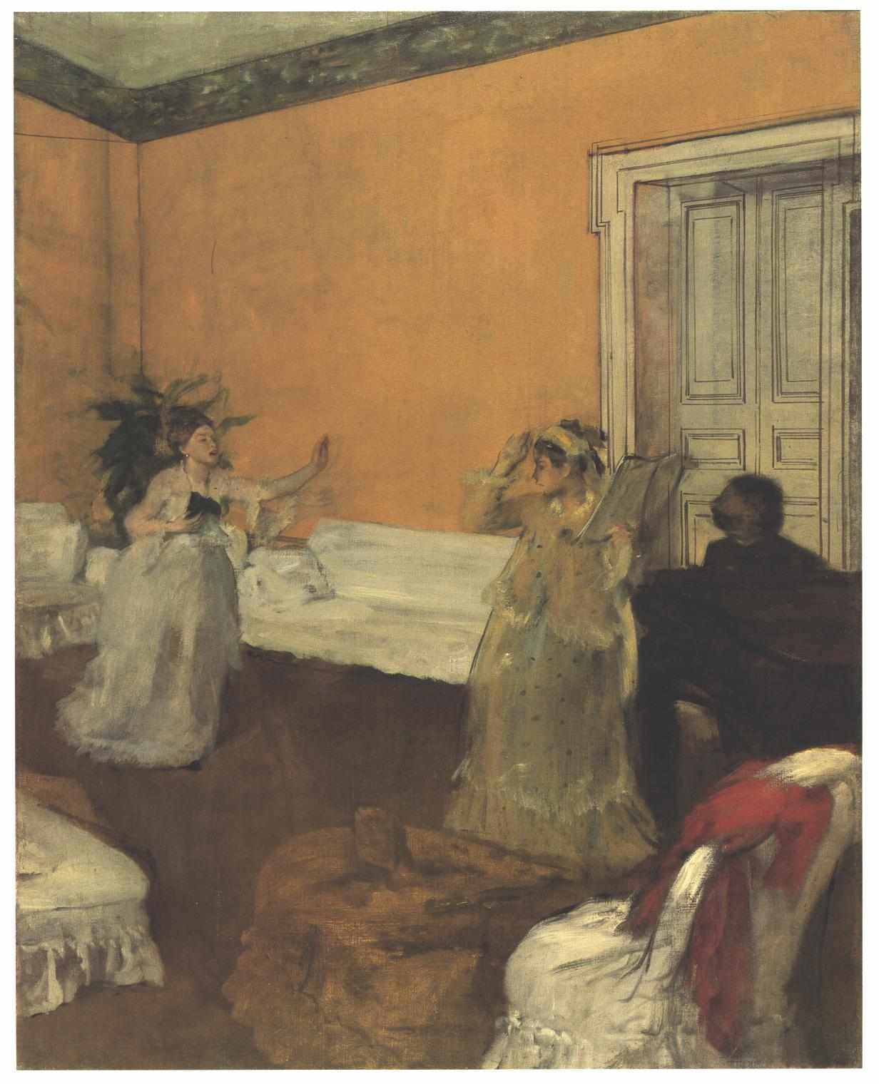 The rehearsal